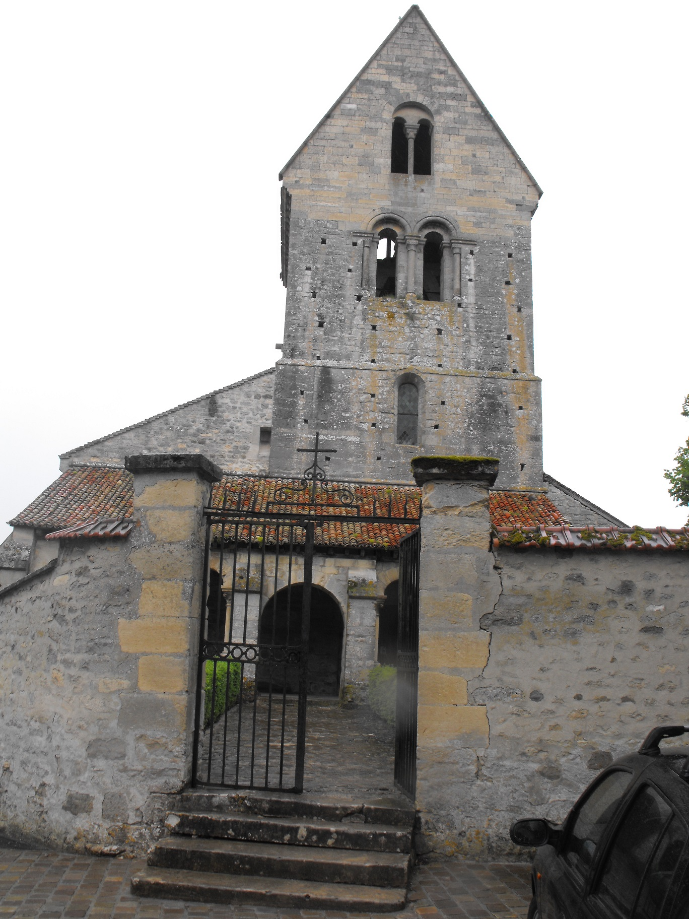 Eglise St-Hilaire XIIe - Saint-Thierry/Marne